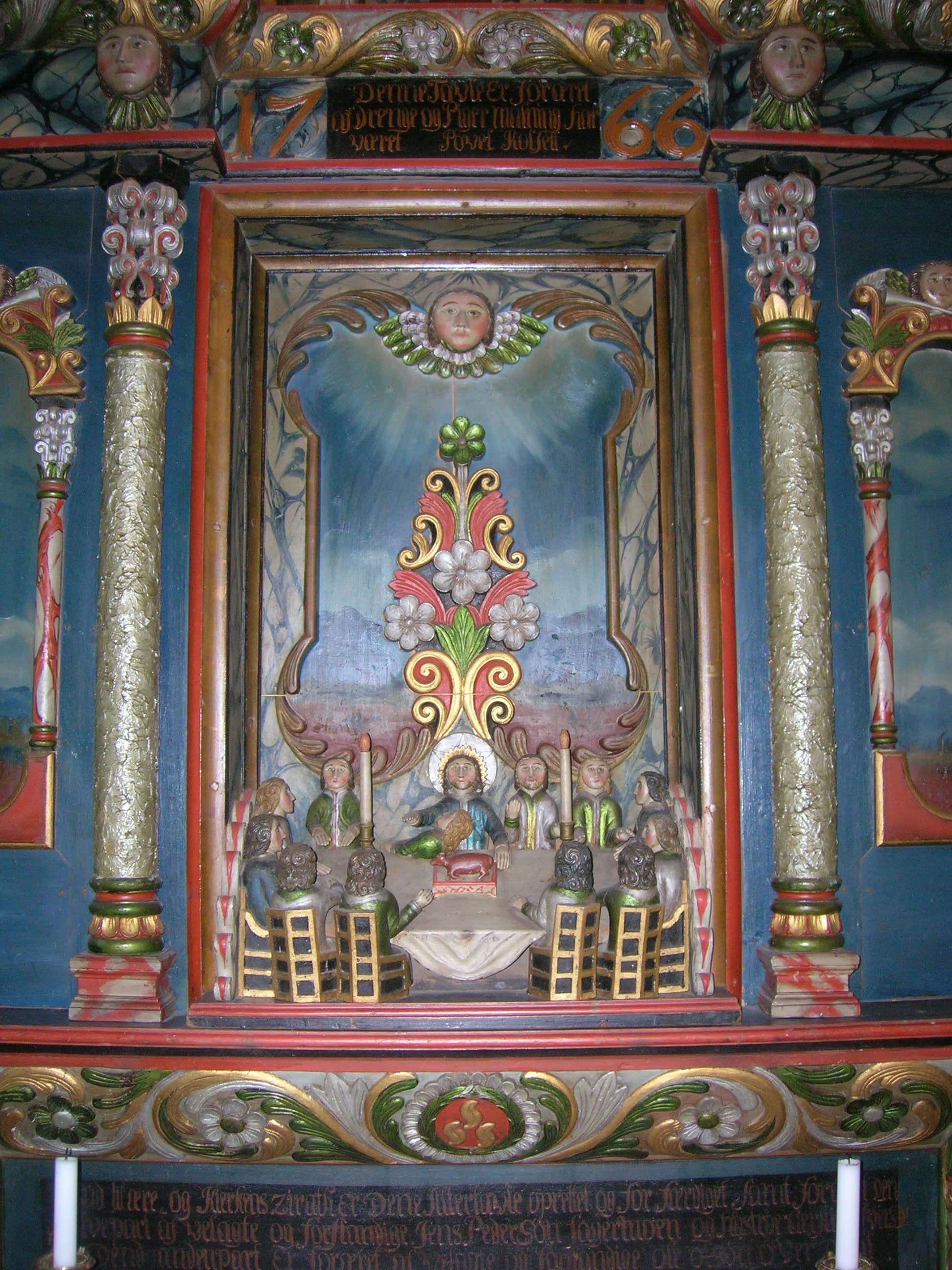 Detail from the altarpiece from 1765 in Mo church, Mo i Rana, Rana municipality, Norway. Photo on July 4, 2008 with a Nikon Coolpix 5600 5,1 Megapixel camera.